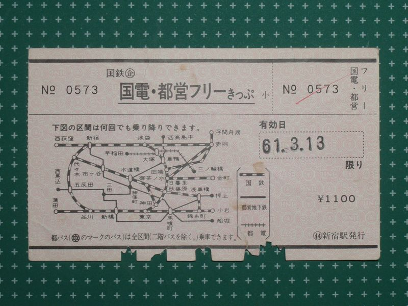 Kokuden Toei freelance ticket